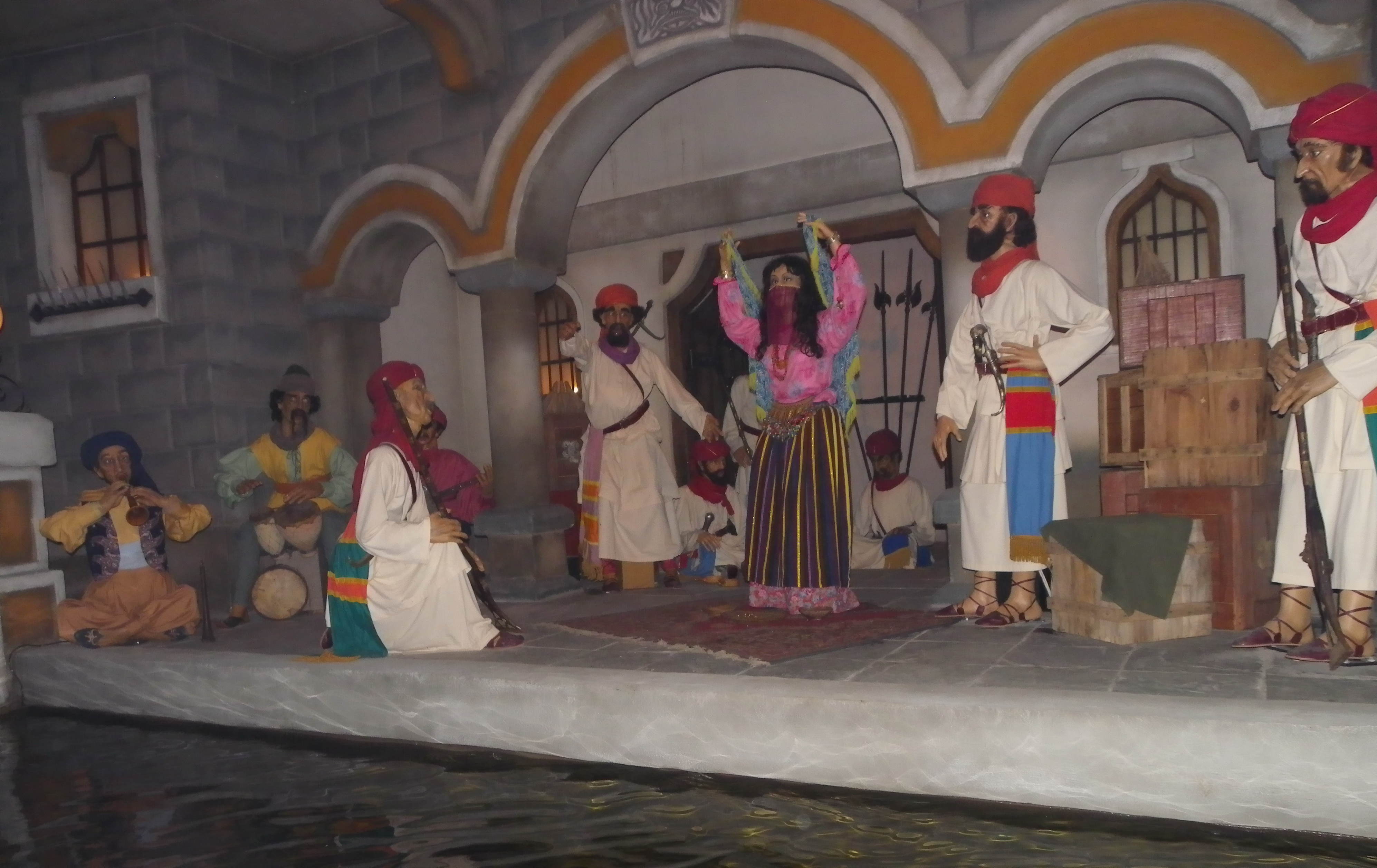 See title.